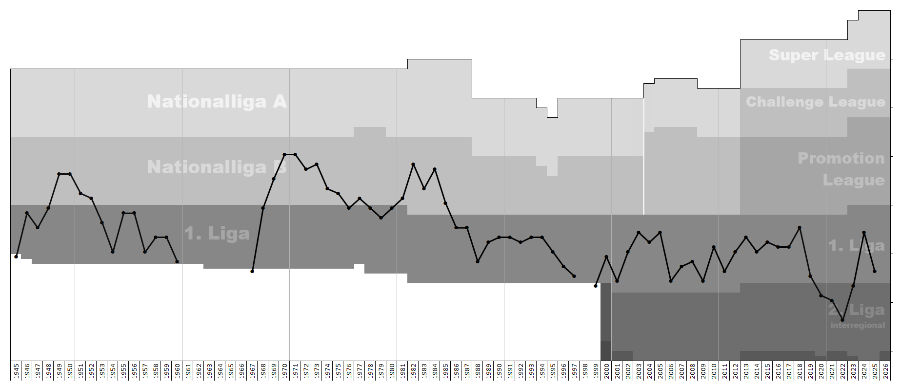 Chart of end-season table positions of FC Mendrisio-Stabio in the Swiss football league system. Data source: RSSSF, , football.ch